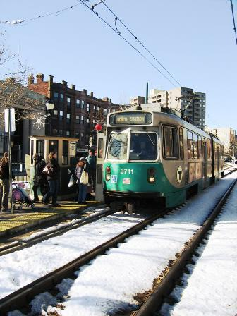 MBTA 3711 inbound at Coolidge Corner in February 2005